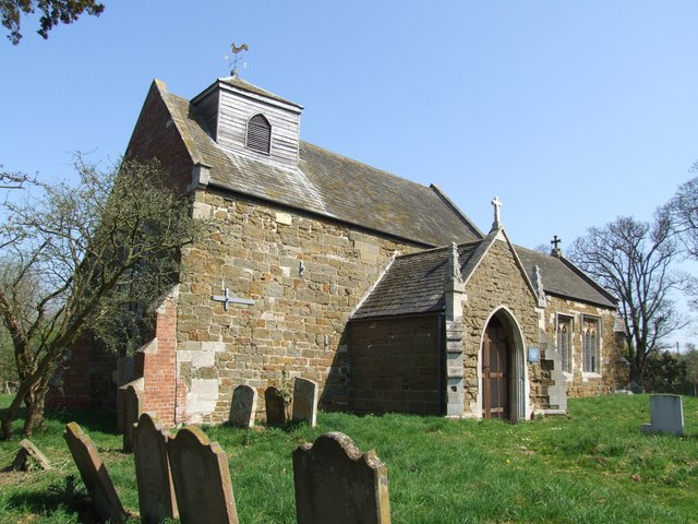 St Benedict, Haltham-on-Bain, near to Haltham, Lincolnshire, Great Britain. The medieval church is built of local greenstone, patched with brick and roofed with 19th-century slates. Ancient pews face an 18th-century three-decker pulpit, some enclosed with a Parclose screen. Above the tower door is the Royal Arms of Charles I, with fragments of the Ten Commandments, and other inscriptions and which are hard to decipher. The hexagonal font is 15th-century with a modern cover. The church is now in the care of The Churches Conservation Trust. Well worth a visit.